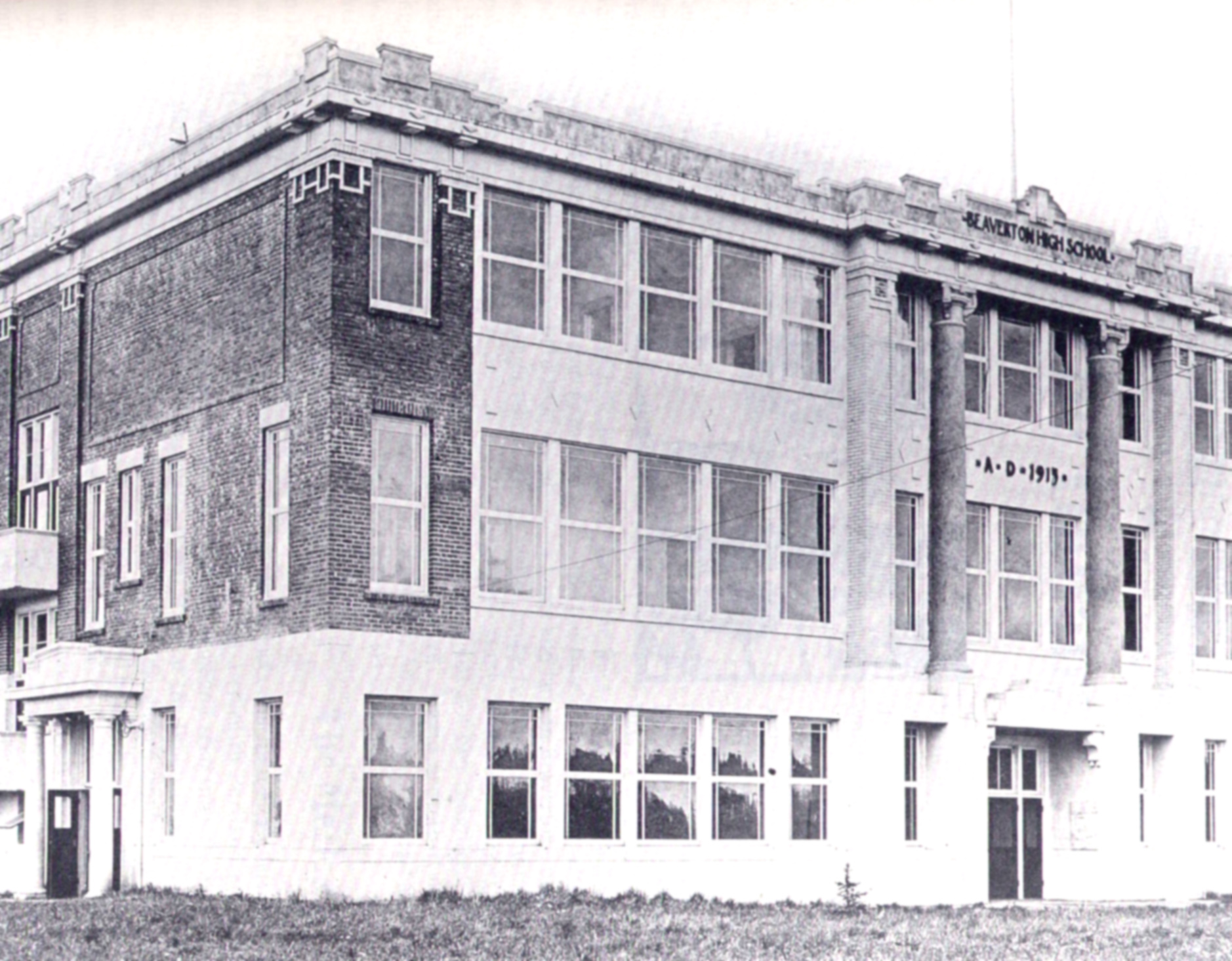 Beaverton High School 1915. Historical images of Beaverton, Oregon.